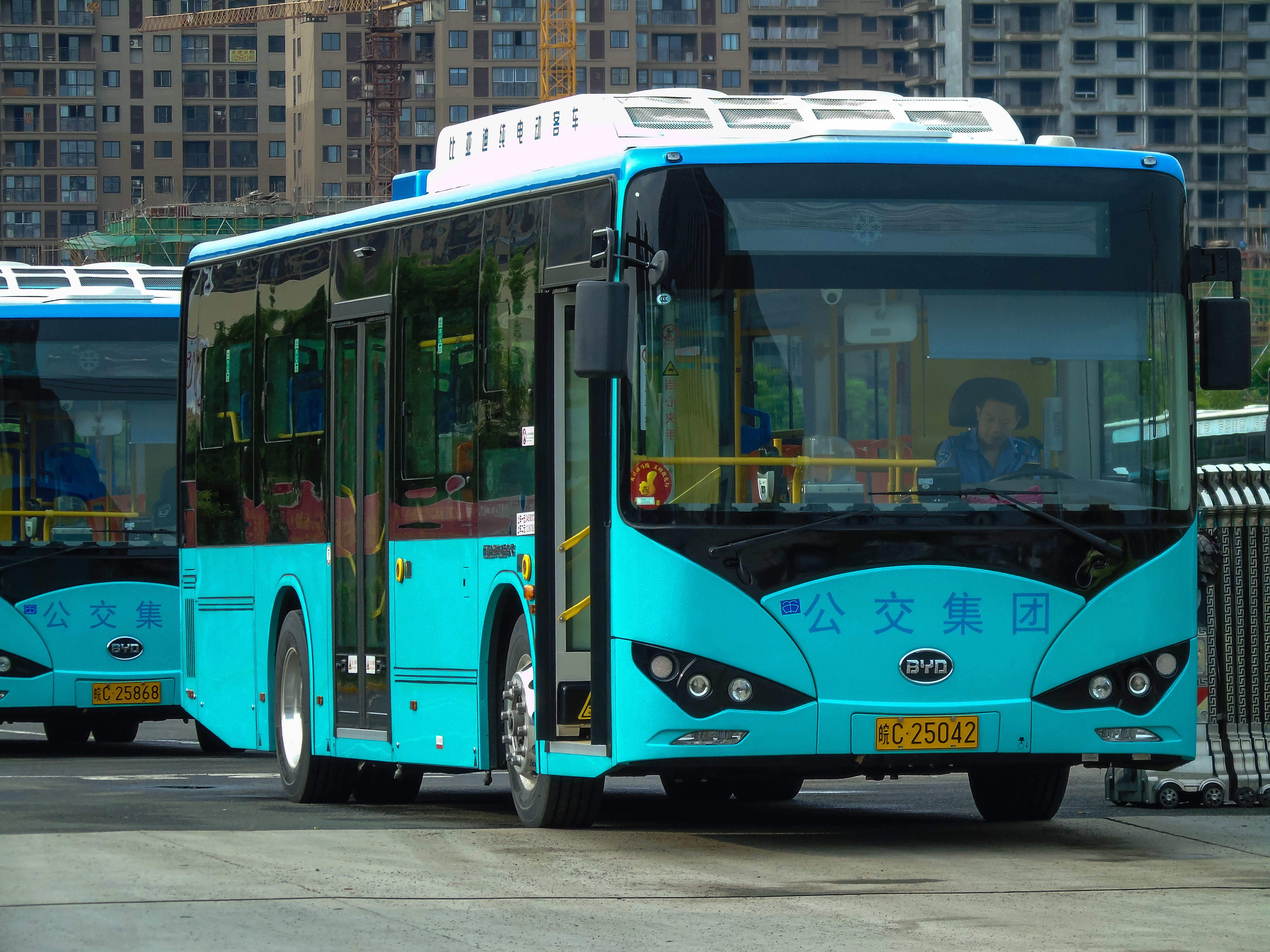 Bengbu Bus No.129 25042